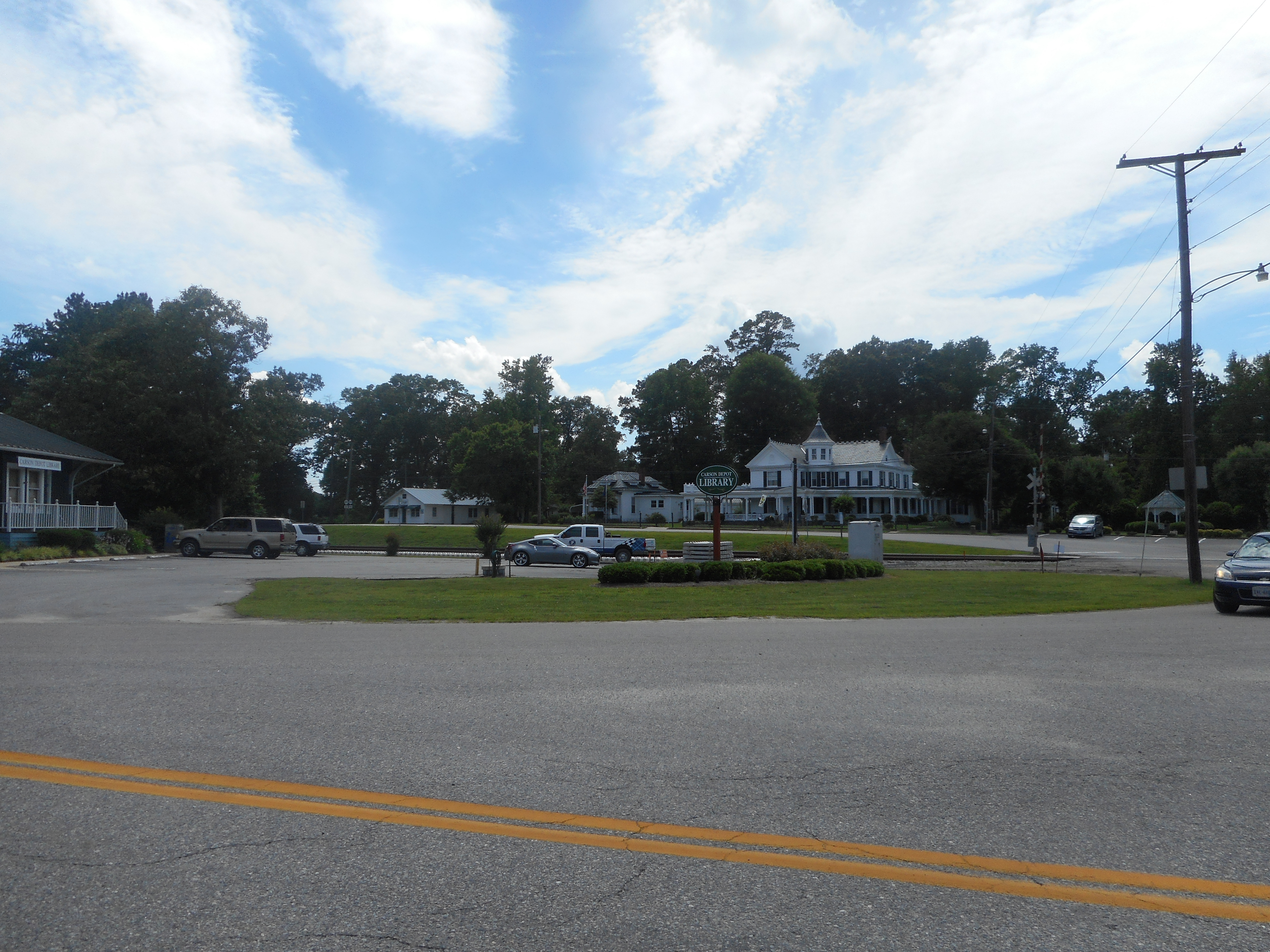 The former Carson Atlantic Coast Line Railroad Depot in Carson, Virginia, which is now the Carson Depot Library. A fancy late-Victorian house named Halligan House on the other side of the CSX North End Subdivision/Dinwiddie County line can be seen from the parking lot.